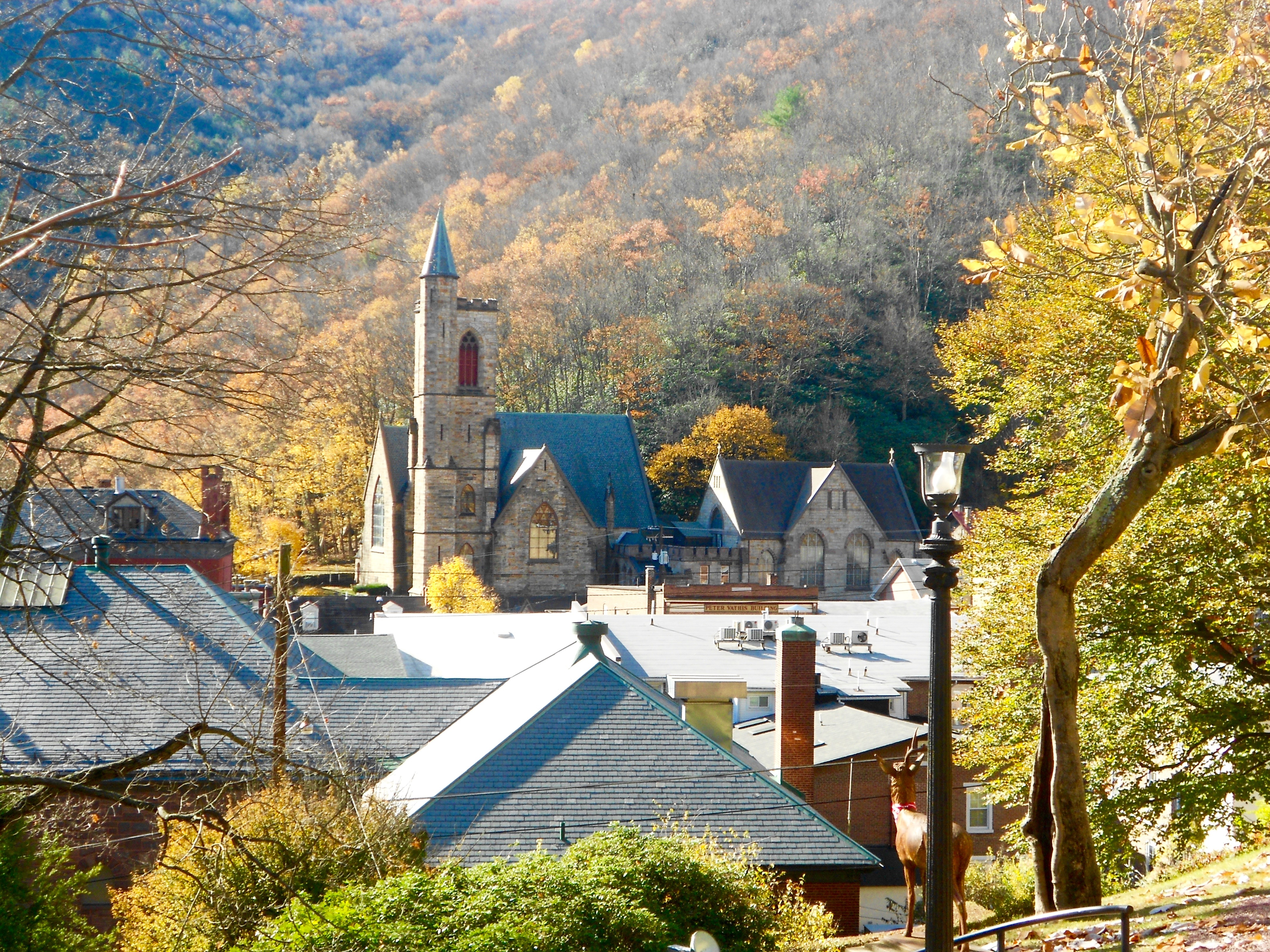 Overview of downtown Jim Thorpe, Carbon County, Pennsylvania. View is of St. Mark's Episcopal Church on the SE side of downtown from the park by the Asa Packer Mansion on the other side.